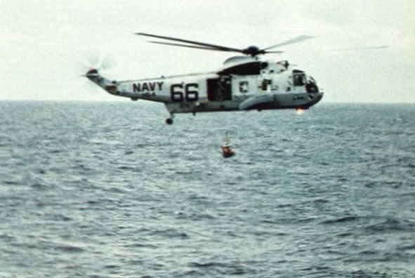 A U.S. Navy Sikorsky SH-3D Sea King (BuNo 152711) of Helicopter Anti-Submarine Squadron 4 (HS-4) "Sea Knights" hovers over the Apollo 11 command module Columbia on 24 July 1969 and retrieves an astronaut (location 13°19′N 169°9′W). HS-4 was assigned to Carrier Anti-Submarine Air Group 59 (CVSG-59) aboard the aircraft carrier USS Hornet (CVS-12) for the recovery of the Apollo 11 moon mission from 27 June to 1 August 1969. The SH-3D BuNo 152711, side number "66" was used for several recovery missions. The helicopter's flight number was changed from "66" to "740", as after the Apollo 11 recovery the U.S. Navy had switched to a three number squadron designator - but the helicopter was repainted with the number "66" for each recovery thereafter for public relations reasons. The Sea King could not be preserved as it crashed on 4 June 1975 on a training flight out Imperial Beach (California, USA). Although the crew was rescued the pilot died later of his injuries. The wreck sank to a depth of ca. 700 m.